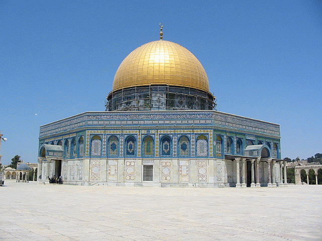 Exterior of Dome of the Rock or Masjid Al Sakhrah, in Jerusalem Picture by 'Thekra A. Sabri' - Islamic Architecture IAORG